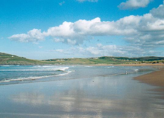 Torrisdale Beach. A fabulous mile or more of clean golden sand on the north coast of Sutherland.